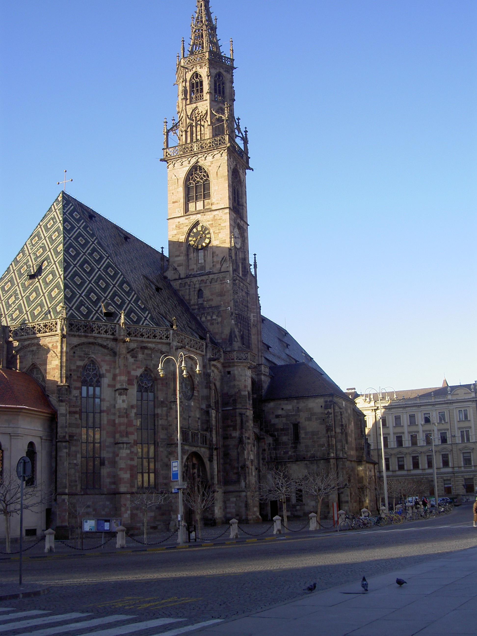 Bolzano, Assumption Cathedral from north-east.